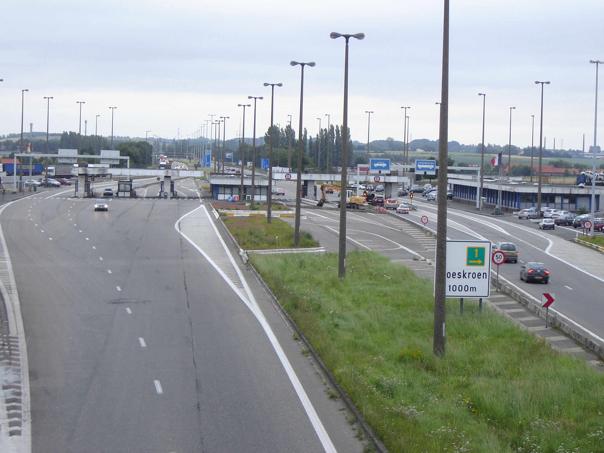 Border crossing on the E17 in Rekkem. Border between France (highway A22/E17) and Belgium (highway A14/E17). Border post has completely disappeared. On the left, on the horizon, the monument "De Sjouwer". Rekkem, Menen, West Flanders, Belgium.